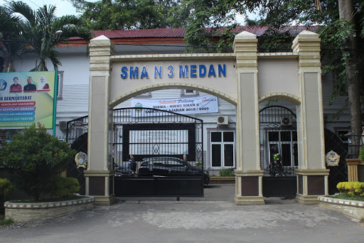 The gate of third state senior high school Medan